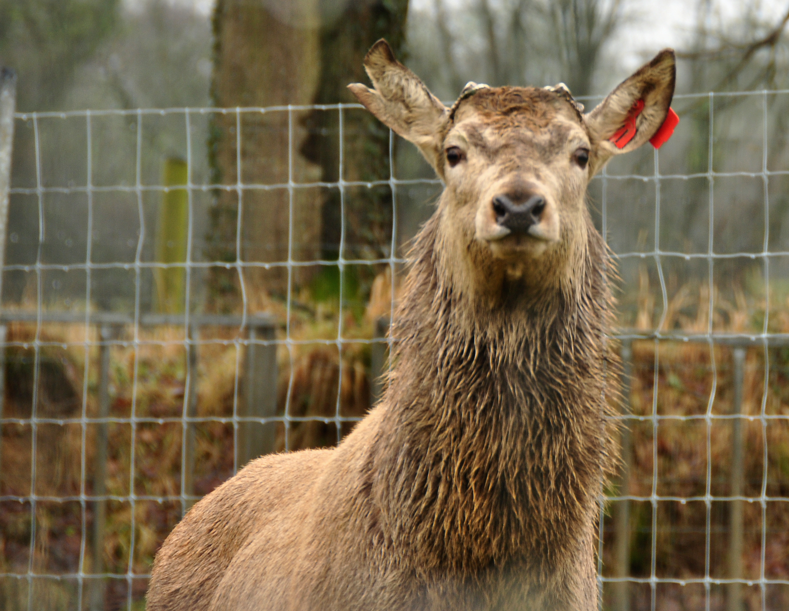 One of the deer at Upcott deer farm, near Hatherleigh, Devon.